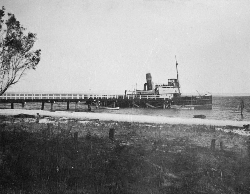 Passenger steamship Beaver at Bribie Island jetty